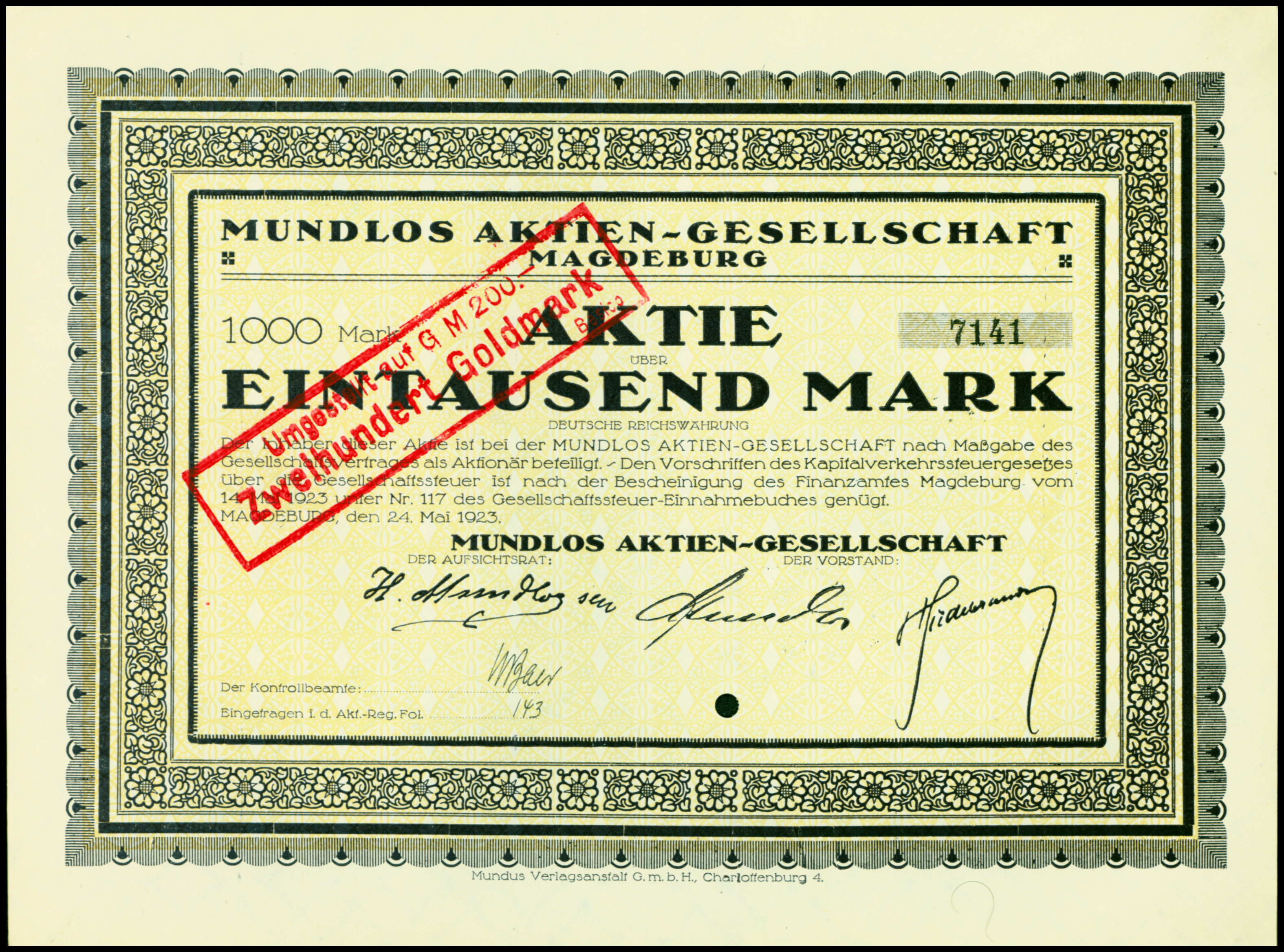 Share of the Mundlos AG, issued 24. May 1923